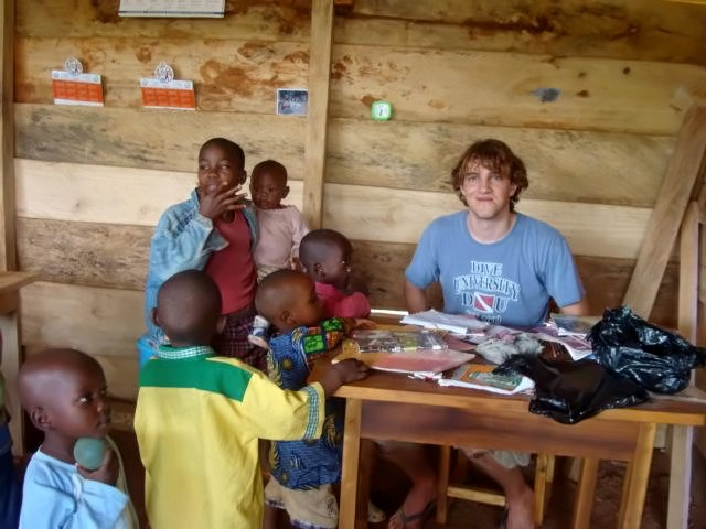 Ted Cunningham with kids at BLIS Cameroon